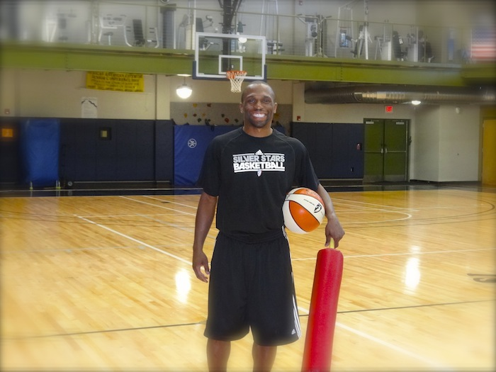 James Wade after a Silver Stars Practice